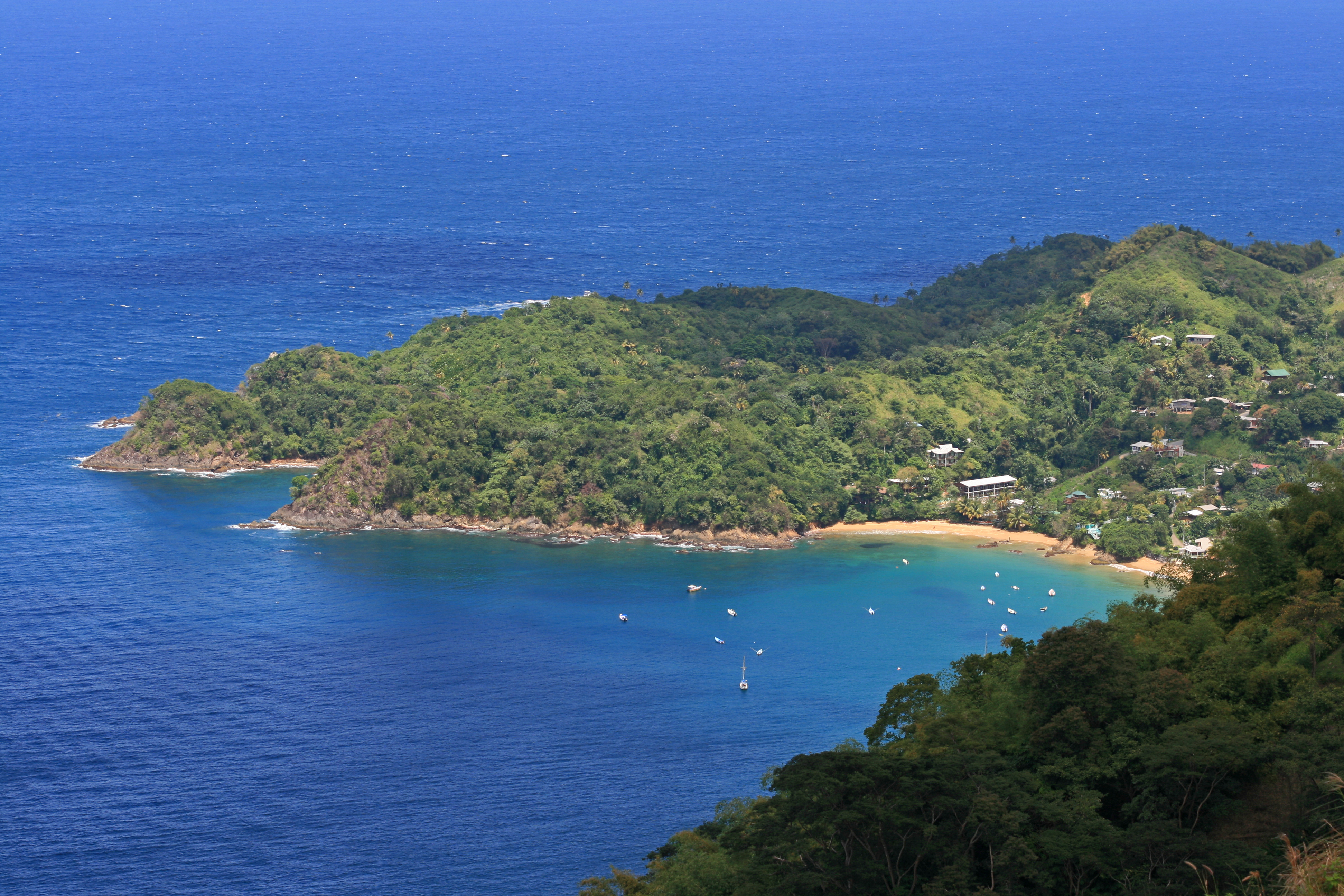 A sunny view of Castara Bay at Tobago in Trinidad and Tobago during February 2009.